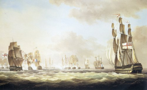 The Battle of San Domingo 6th February 1806 with H.M.S. Canopus Joining the Action, Thomas Lyde Hornbrook (1780-1850)